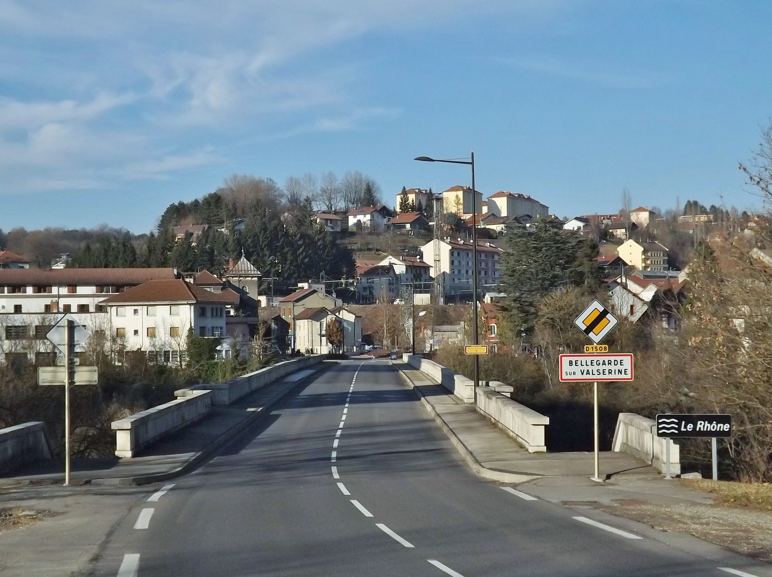 Sight of Pont de Savoie bridge over the Rhône river, when entering in French city of Bellegarde-sur-Valserine in Ain.